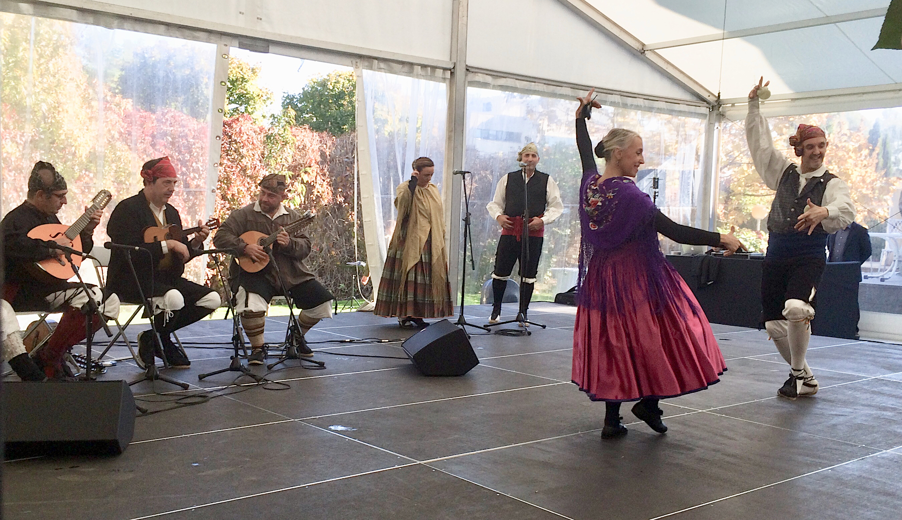 Dancers at a aragonese jota